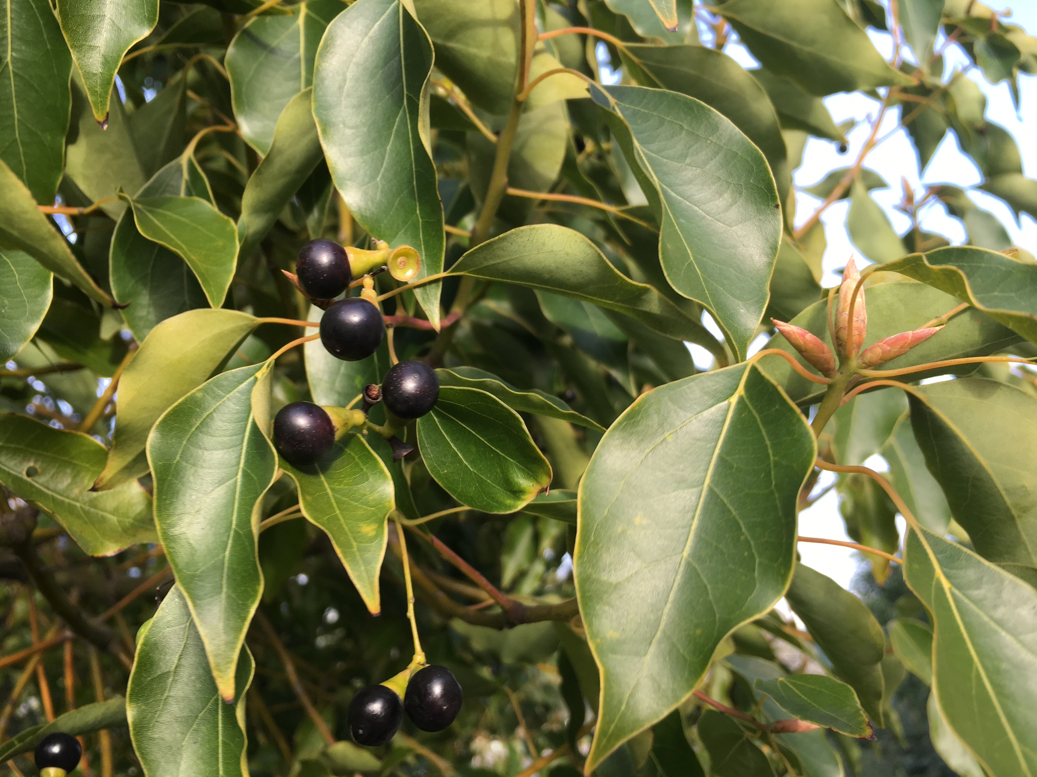 Camphor Laurel, Cinnamomum camphora